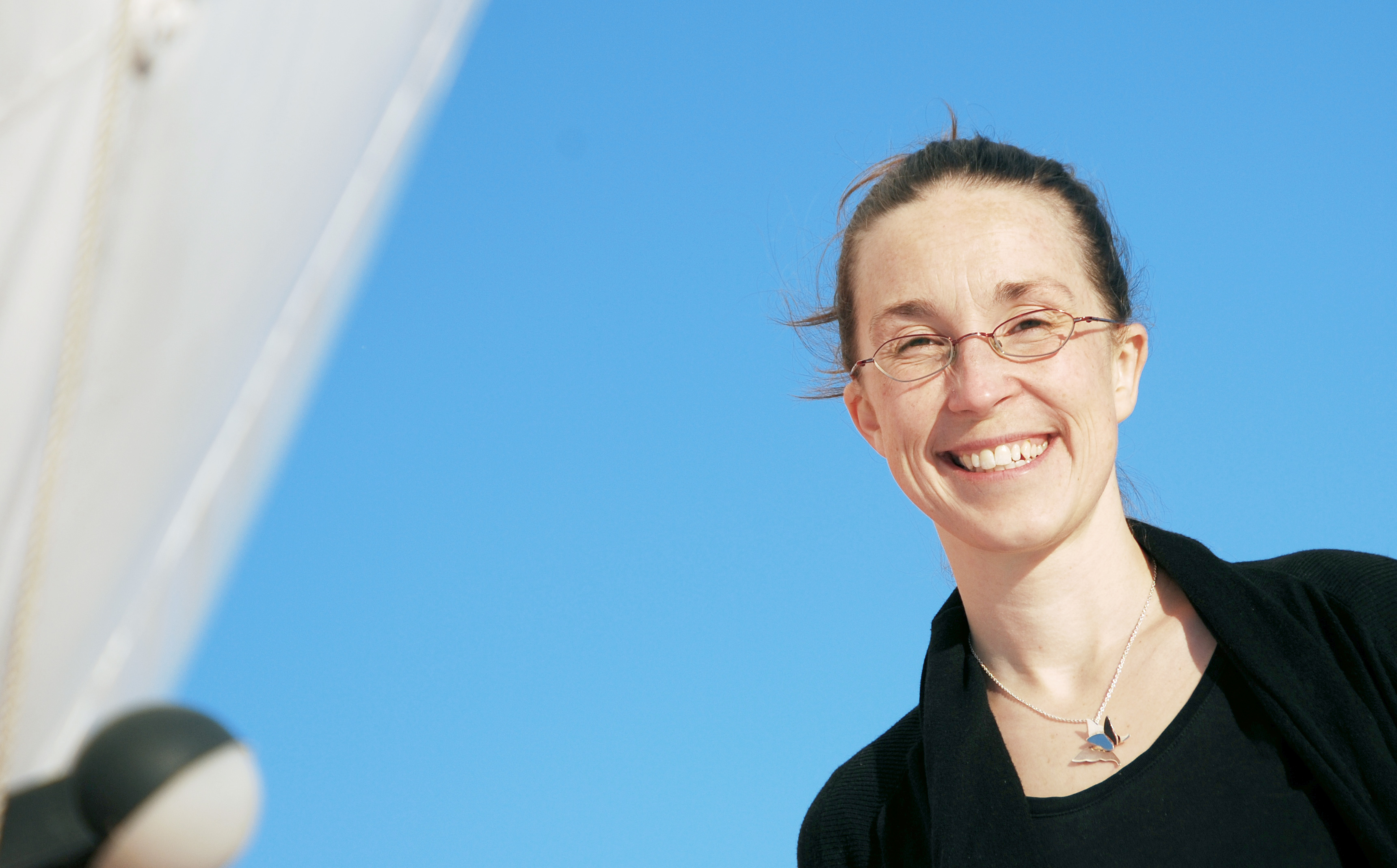 photograph of astronomer Kirsten Kraiberg Knudsen